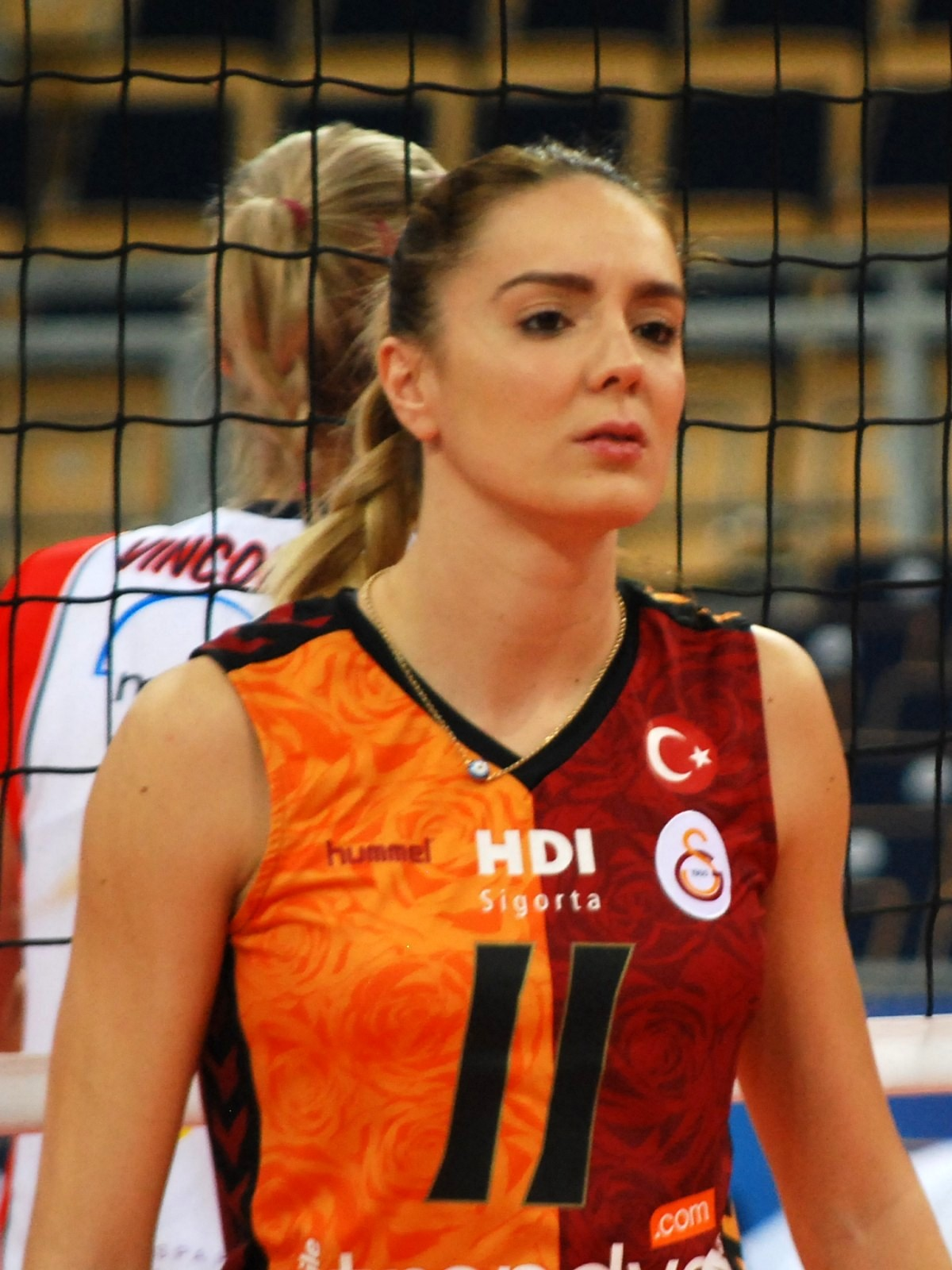 Gamze Alikaya, volleyball player from Turkey